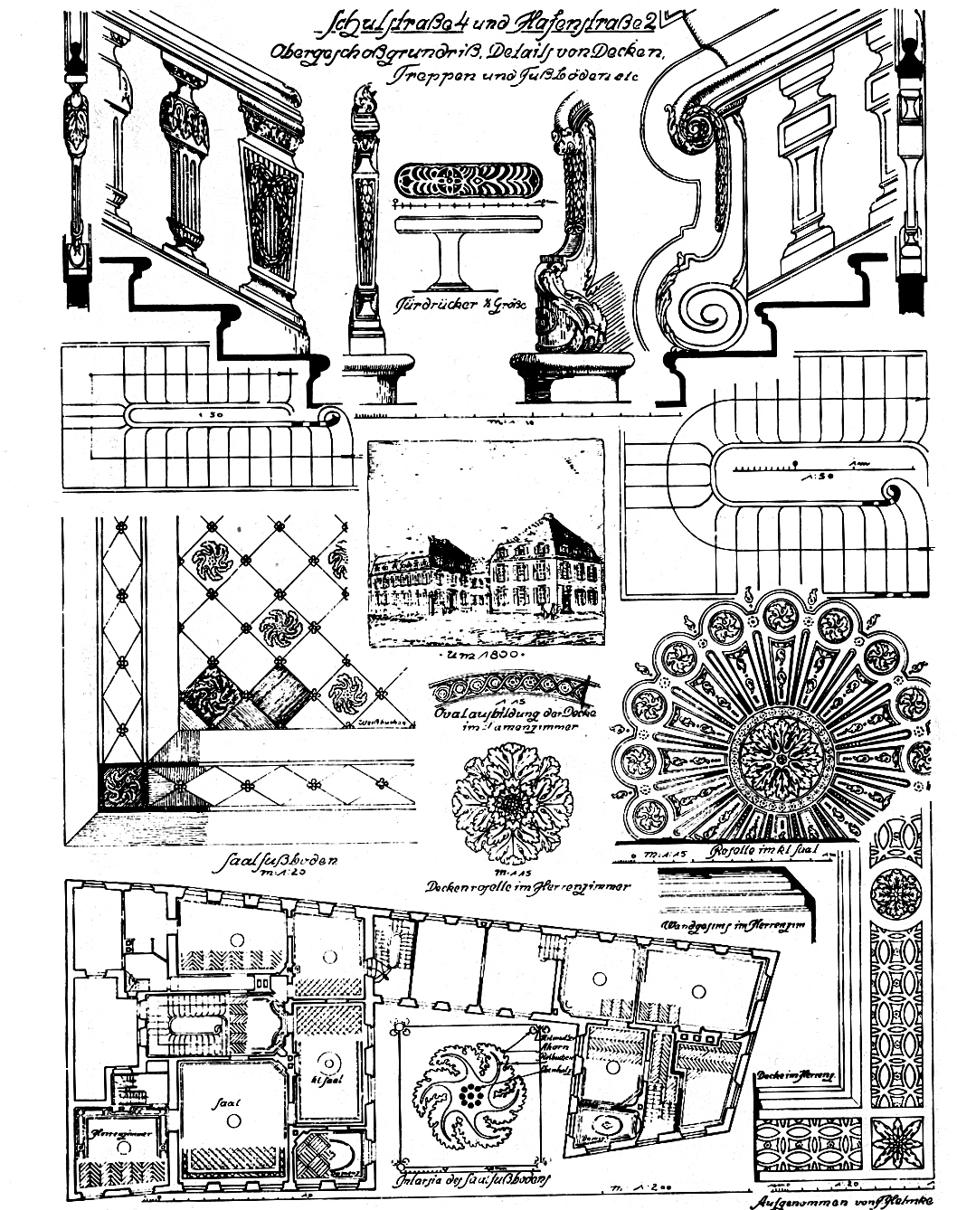 t